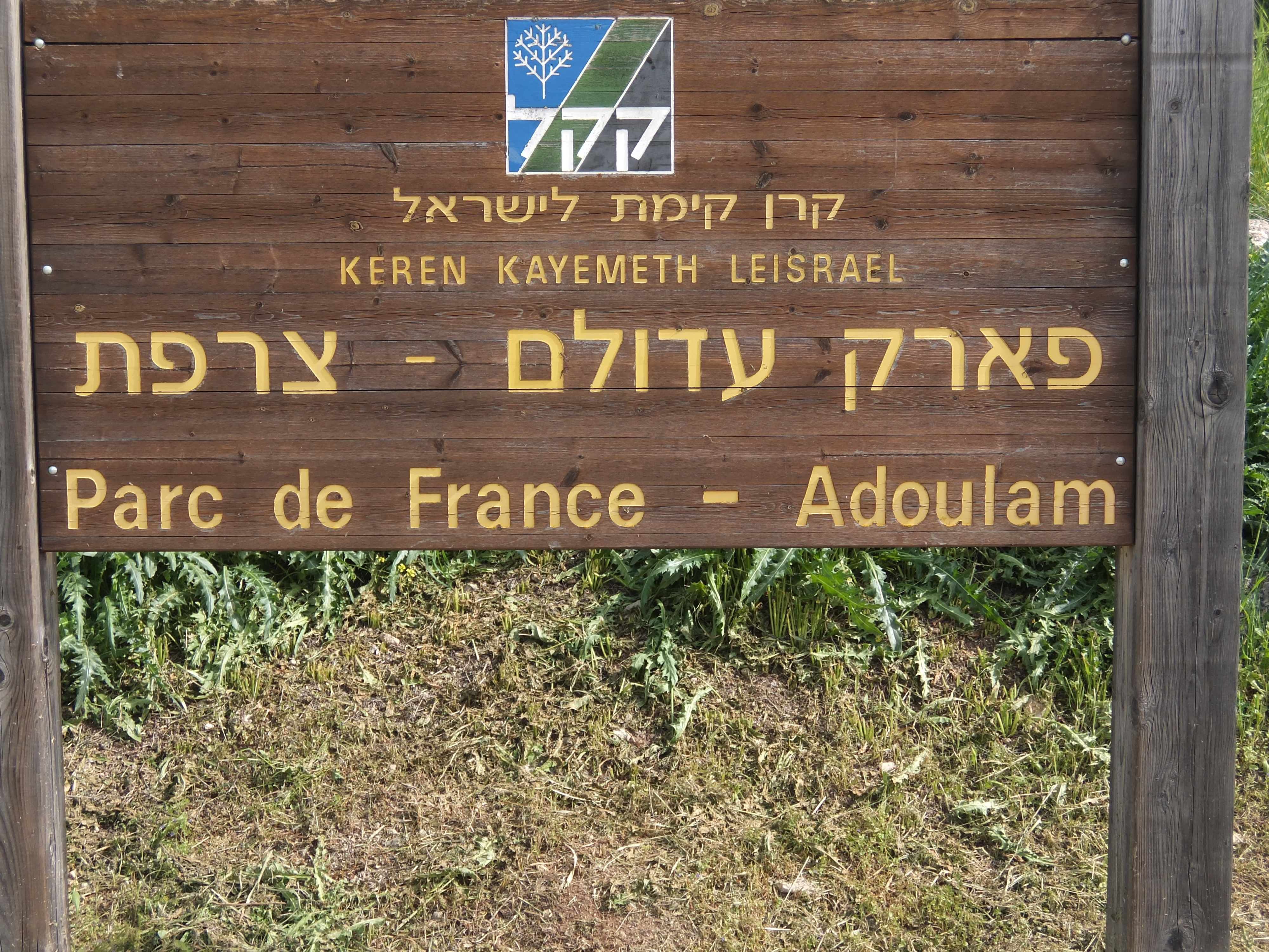 Sign at entrance to Adullam-rance Park in Israel